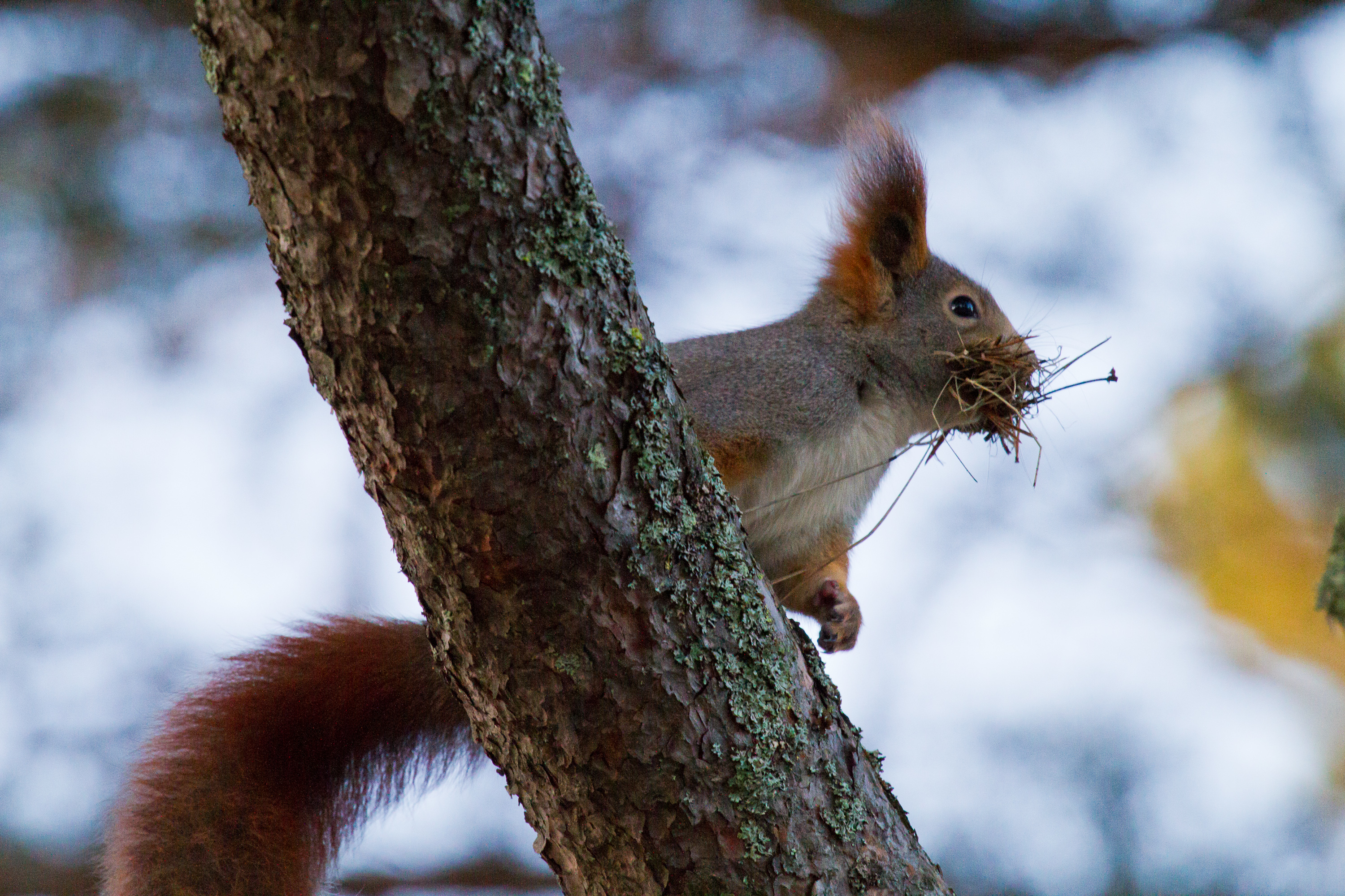 Red squirrel (Sciurus vulgaris) in at least partial winter coat in Norrbotten, northern Sweden.